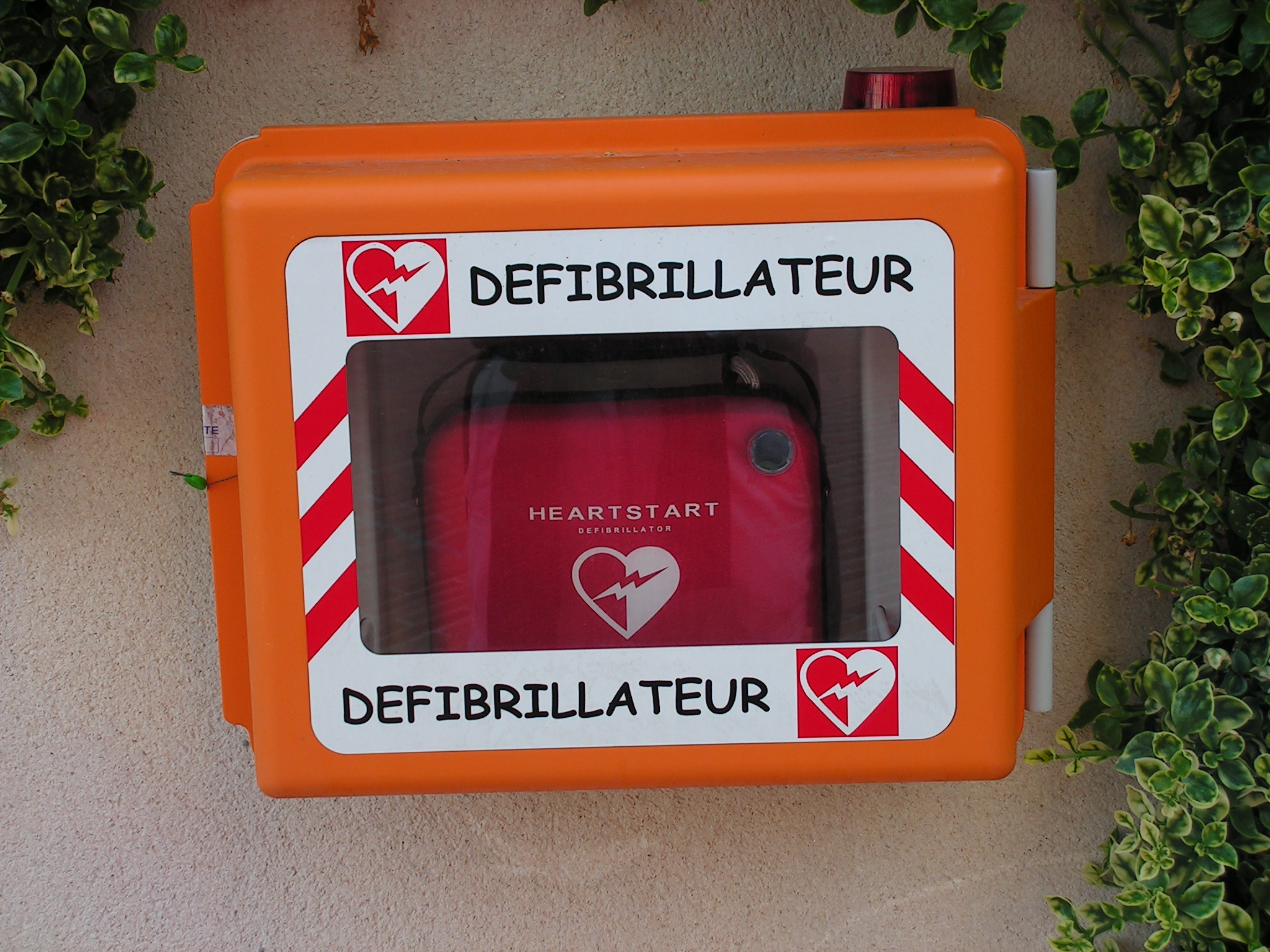 A "street defibrillator". Having a cardiac arrest in the "heart of Monaco" could be less problematic.